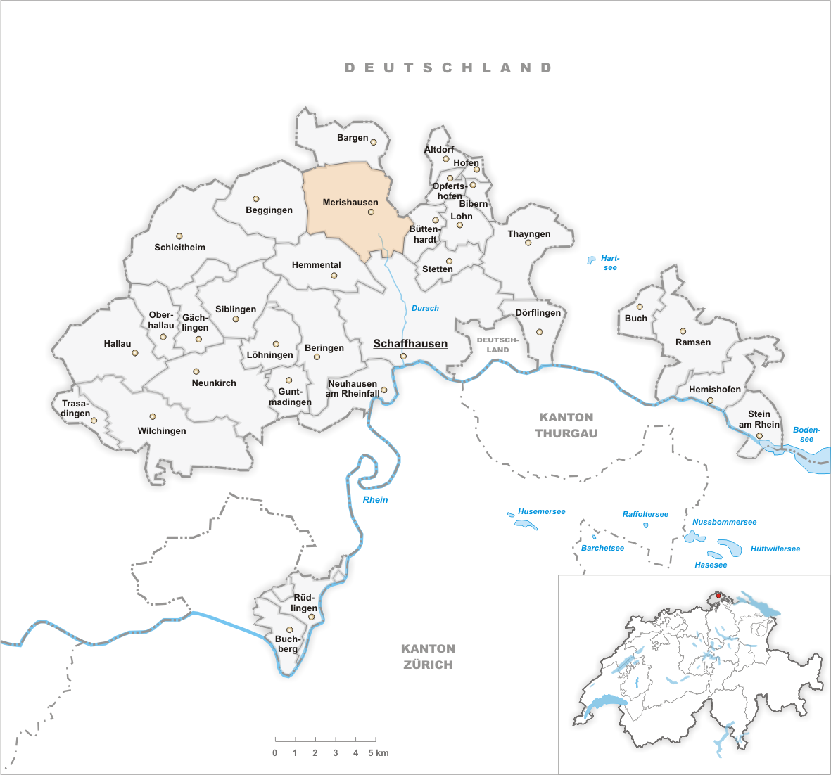 Municipality Merishausen